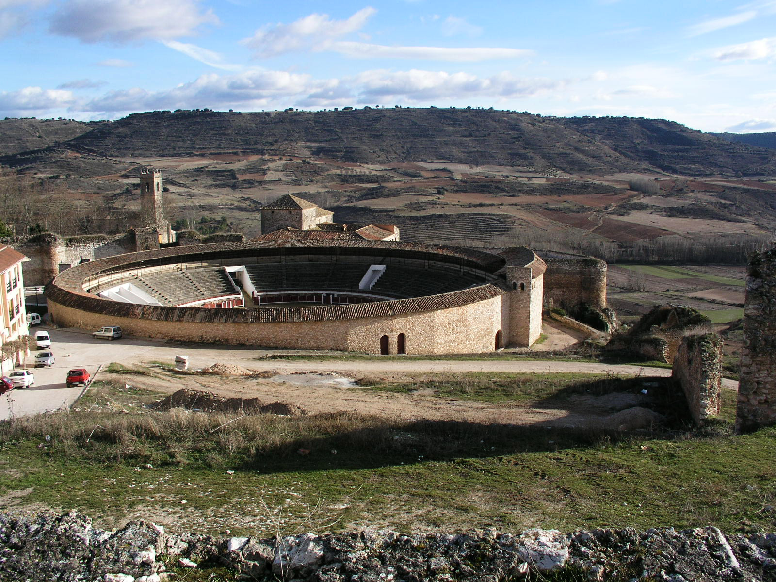 Brihuega, Plaza de Toros, Provincia de Guadalajara, Spain. Inaugerated 12th of July, 1965. Number of spectators: 7000 persons.